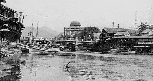 Motoyasu Bridge and Hiroshima Commercial Museum